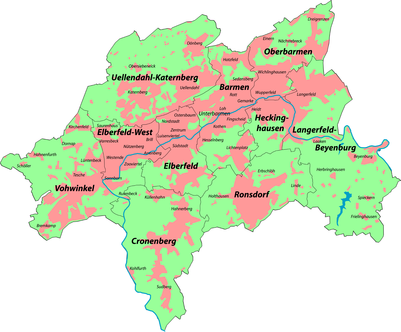 Map of Wuppertal, Germany